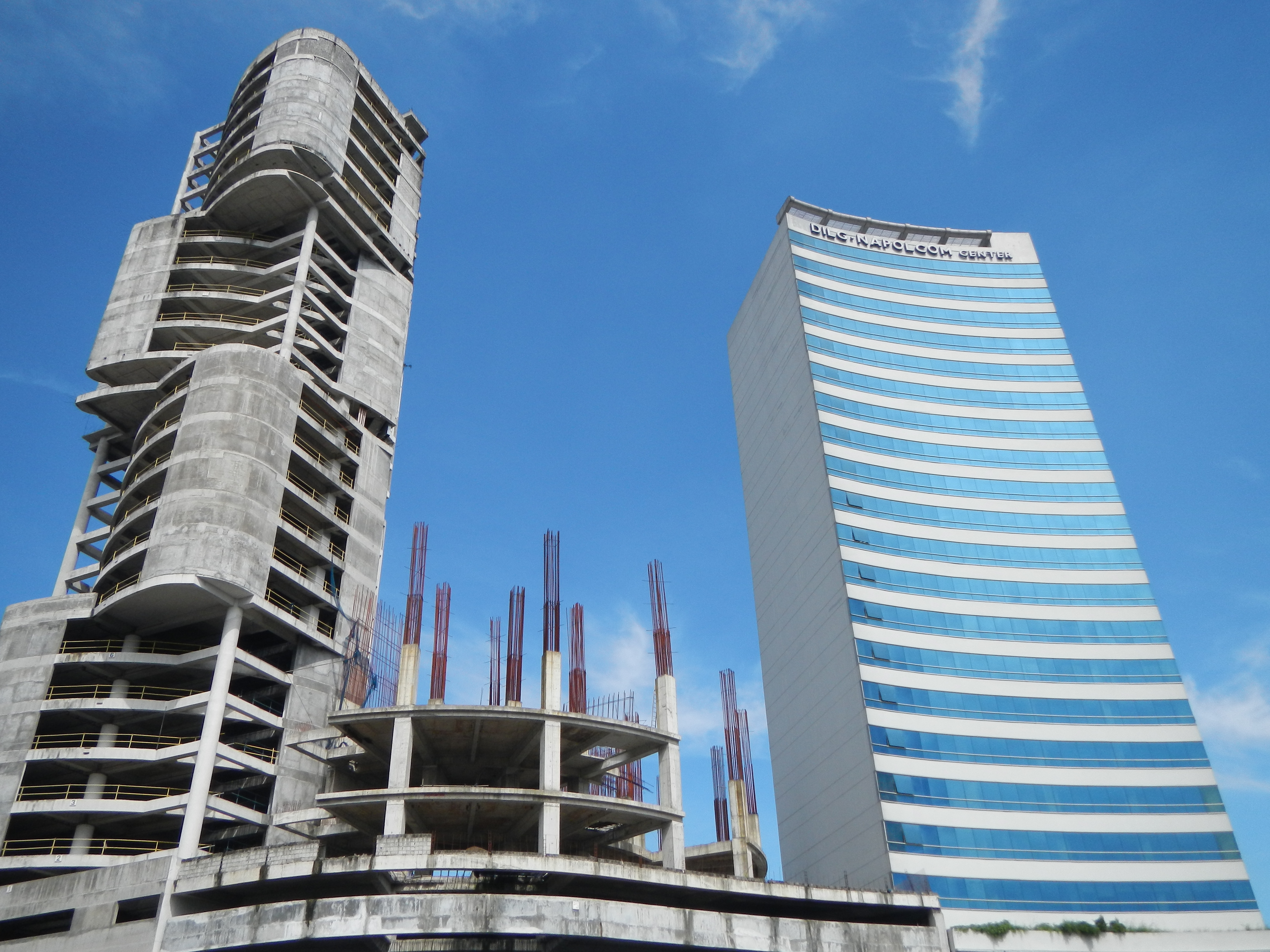 UploadWizard photos -- (General description, 3-dimension angle by angle photography of this town, church & landmarks) -- of the foot bridge view of. and from, photography --- of Quezon Avenue[1], Quezon Avenue MRT Station [2] EDSA[3], intersection footbridge, and the Gregorio Araneta Avenue Underpass, Quezon City[4], the Department of the Interior and Local Government [5] & National Police Commission (Philippines) [6] Center building & --- -- Bust, Monument of Hon. Magdaleno "Denong" Palacol, at Bus Stop, terminal, junction near footbridge at Pagsawitan, Santa Cruz, Laguna[7] .